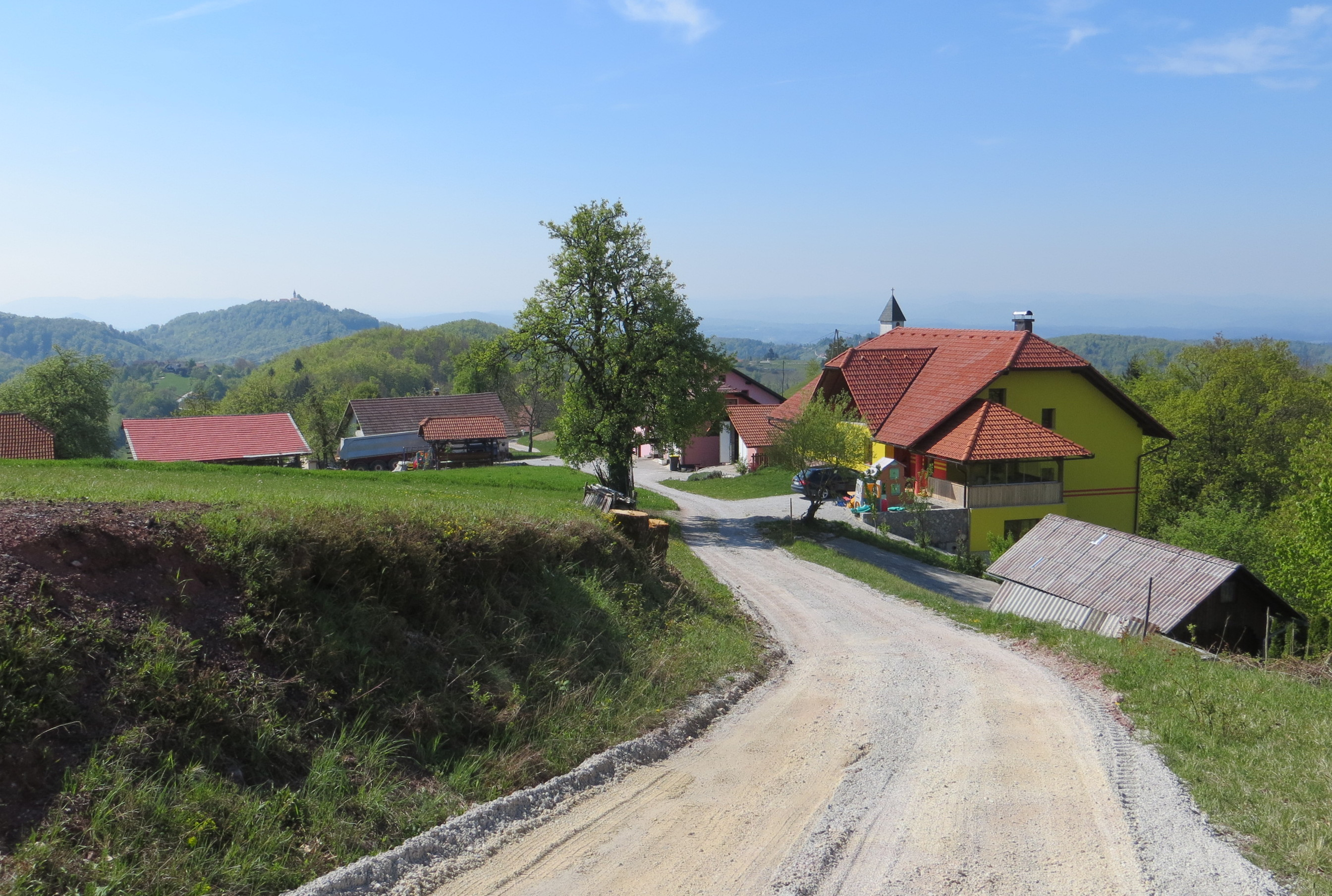 Ježni Vrh, Municipality of Šmartno pri Litiji, Slovenia